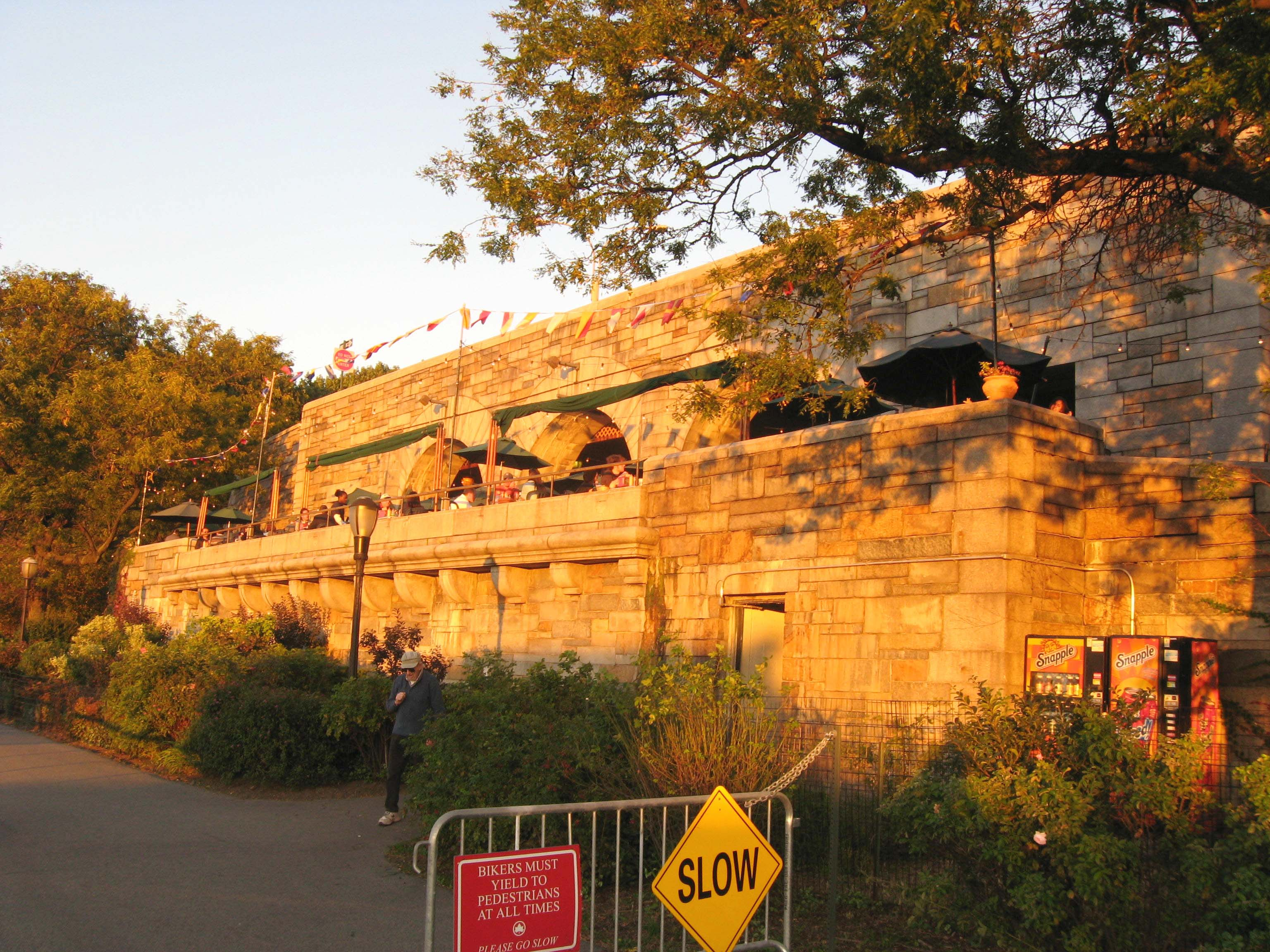 Looking up and northeast at en:79th Street (Manhattan) Boat Basin Cafe at the end of a sunny day. See File:Boat Basin Cafe pre opening jeh.JPG for interior and File:Boat Basin Cafe terrace jeh.JPG to see this terrace from inside.